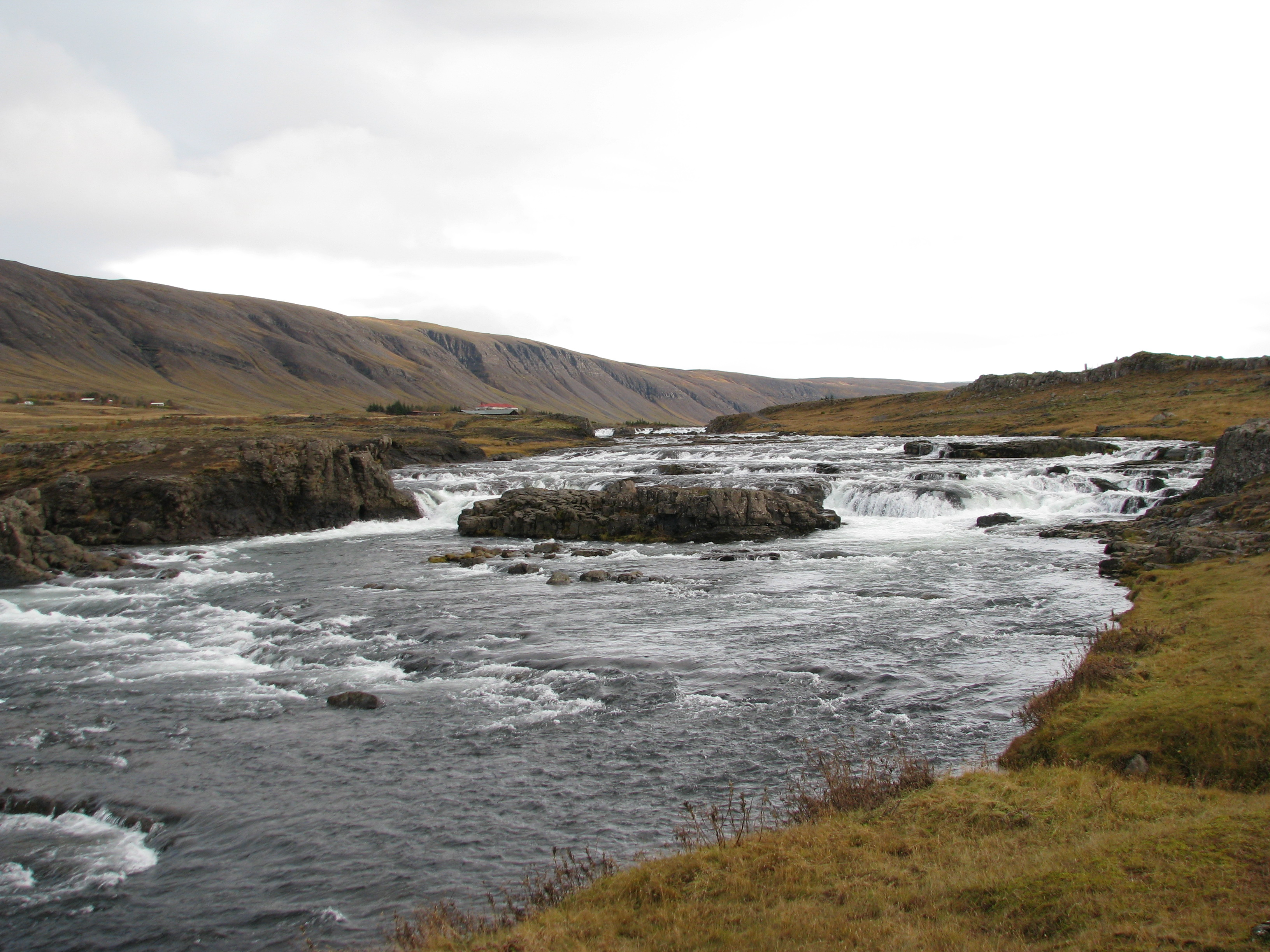 The Laxá í Kjós, a waterfall in the Laxá river in the Kjós district, Iceland.